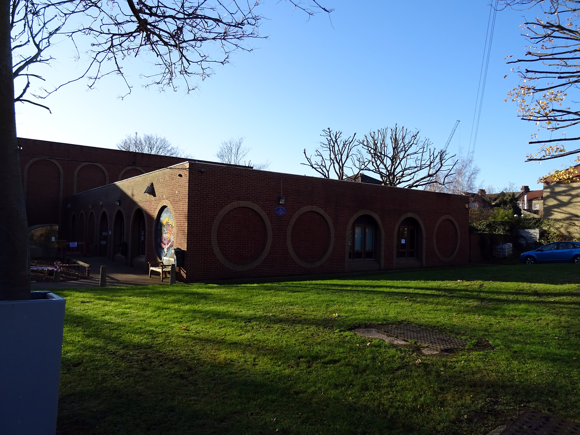 The Pastures Demolished 1966. Site of a substantial 17th Century house once the home of William Davis a local benefactor after whom the lane is named. Also the home of Agnes Cotton who named the house and founded the Home of the Good Shepherd in 1879 - 15 Davies Lane, Leytonstone, London E11 3DR